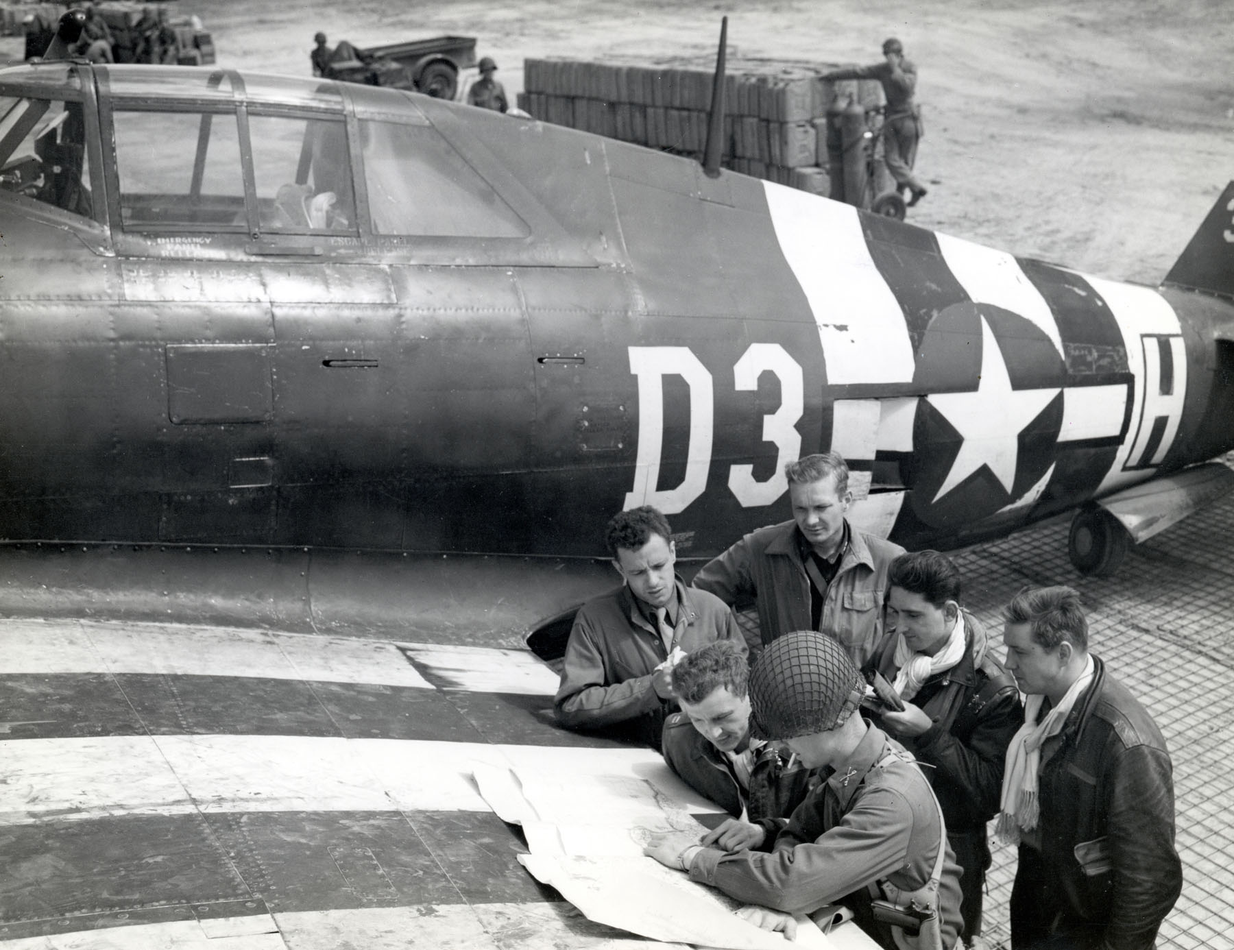 P-47 fighter-bomber pilots at a rough airstrip near St. Mere Eglise on June 15, 1944. By the end of August, all 18 of the 9th Air Force’s fighter-bomber and four of its medium bomber groups were based on the continent. (U.S. Air Force photo)